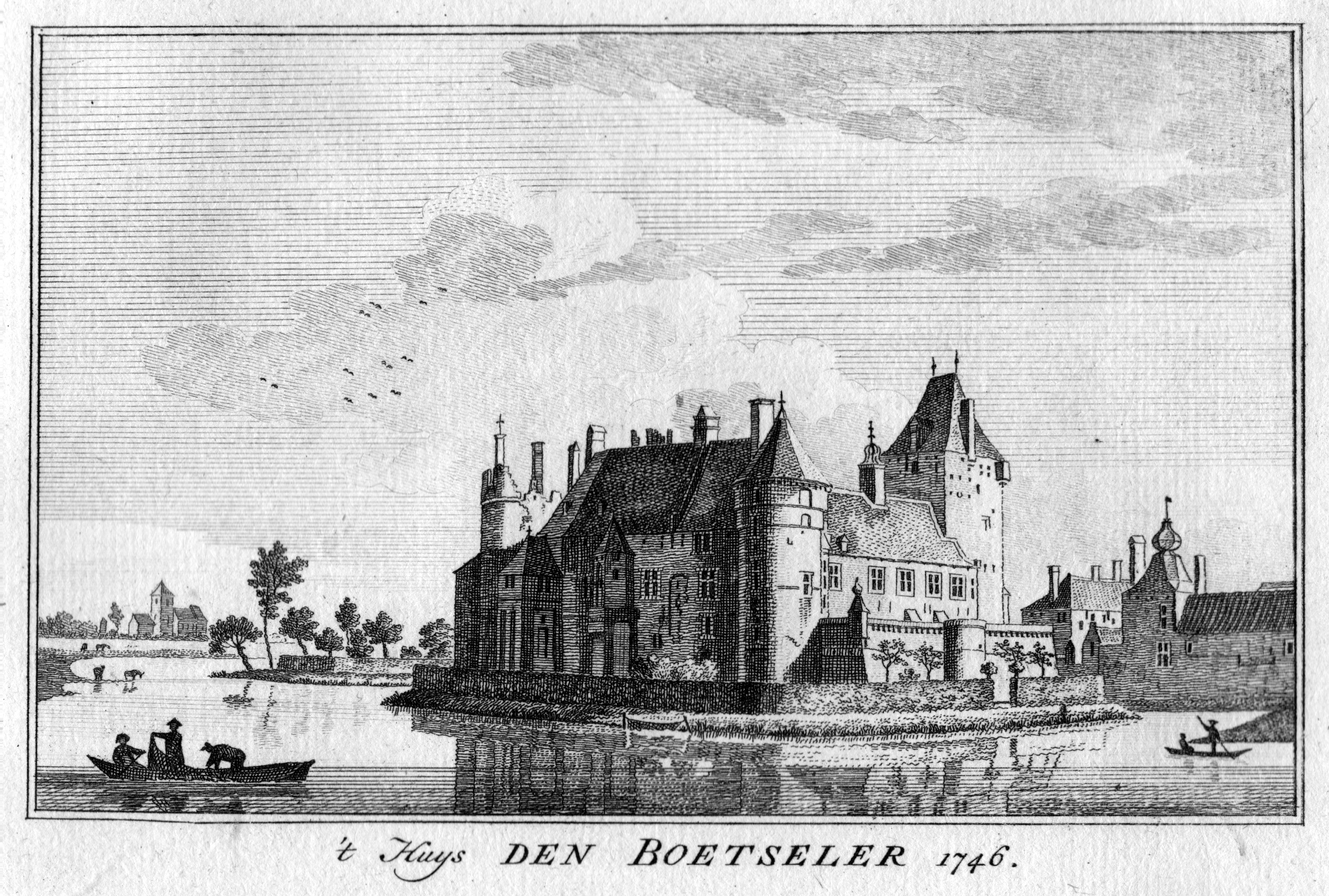 Copper engraving by P. van Liender of a drawing by Jan de Beijer. It figures the old fortified building called 't Huys Den Boetseler near Kalkar (Germany). It is published in 1792.